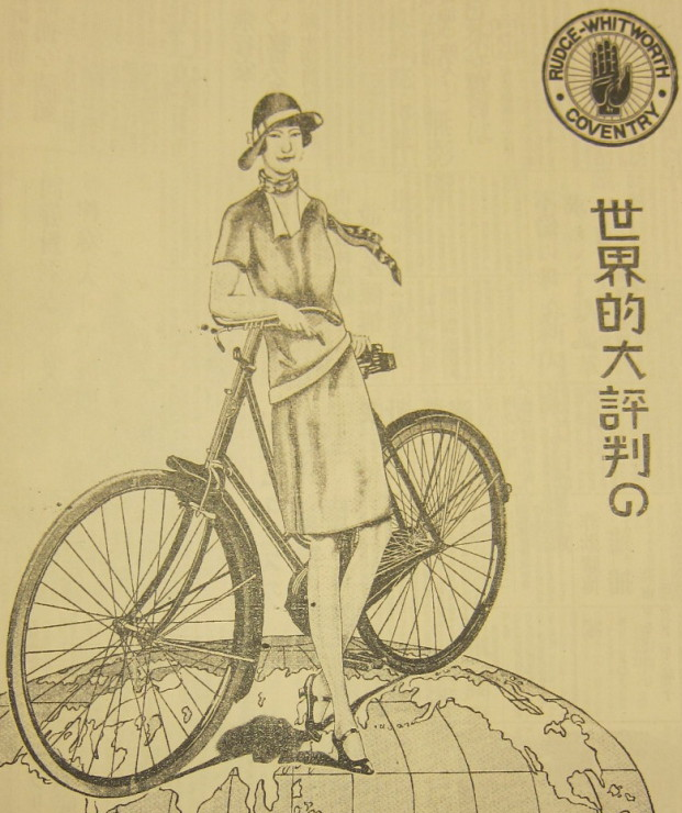 Commercial of a bike store in Taiwan.